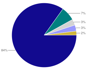 Pie chart that lists the award percentages by source for the Georgia Tech Research Institute (currently, in 2014). Source: GTRI annual report 2014 (